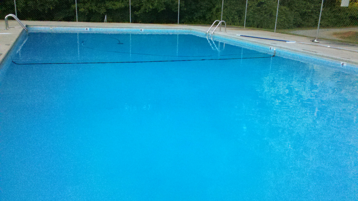 Northwest Park, Chatham County NC, USA, May 2013. Swimming Pool.